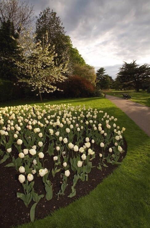 A bed of white tulips seen in the Royal Greenwich Flower Gardens.